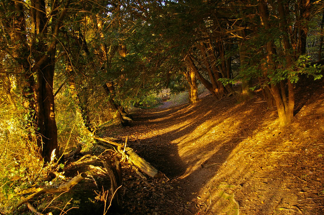 Pilgrims Way This is part of the ancient Pilgrims Way, taken in the early morning. The yews form a tunnel along this stretch, giving strong lighting contrast.